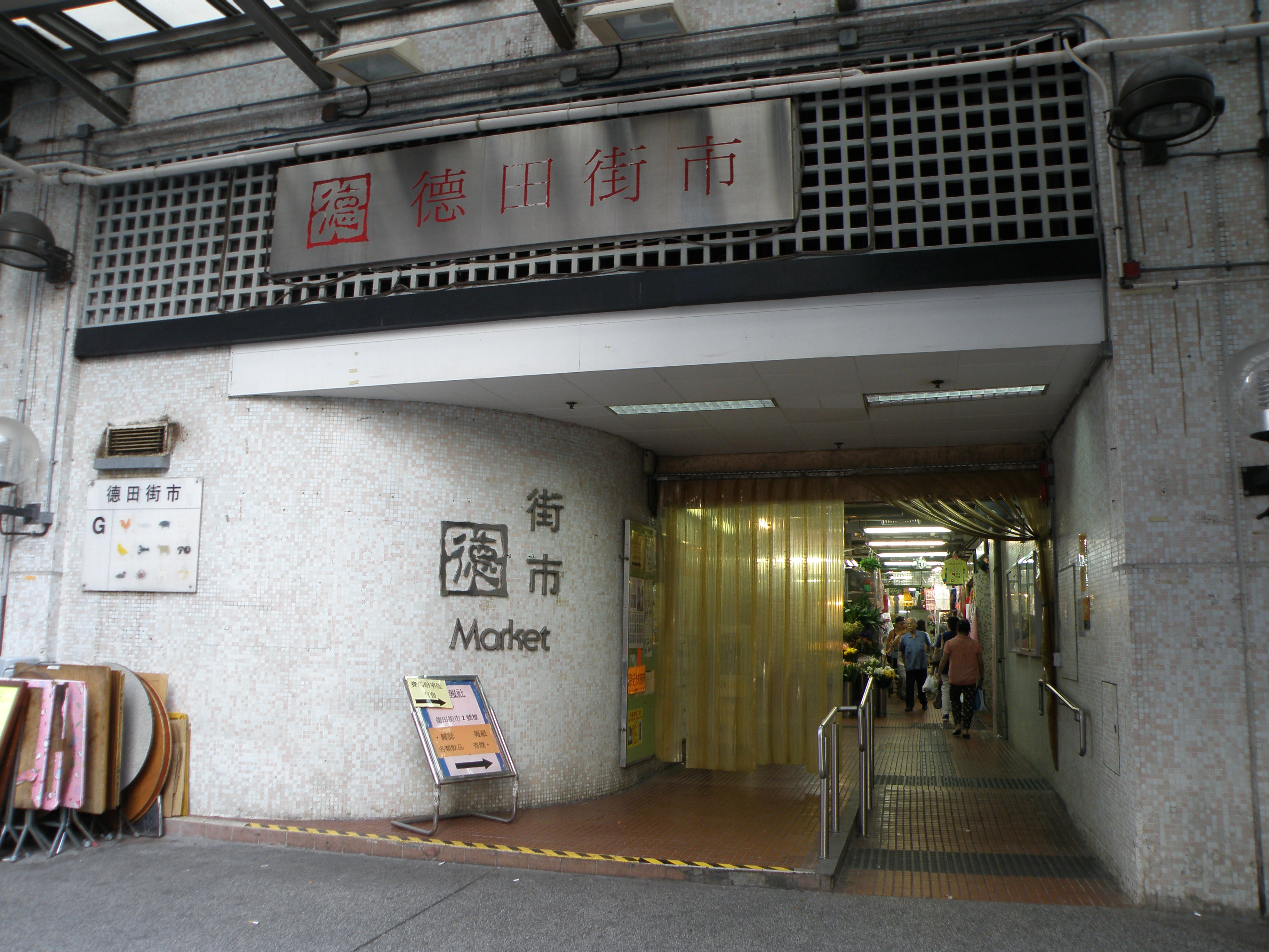 Tak Tin Market in Lam Tin, Hong Kong.